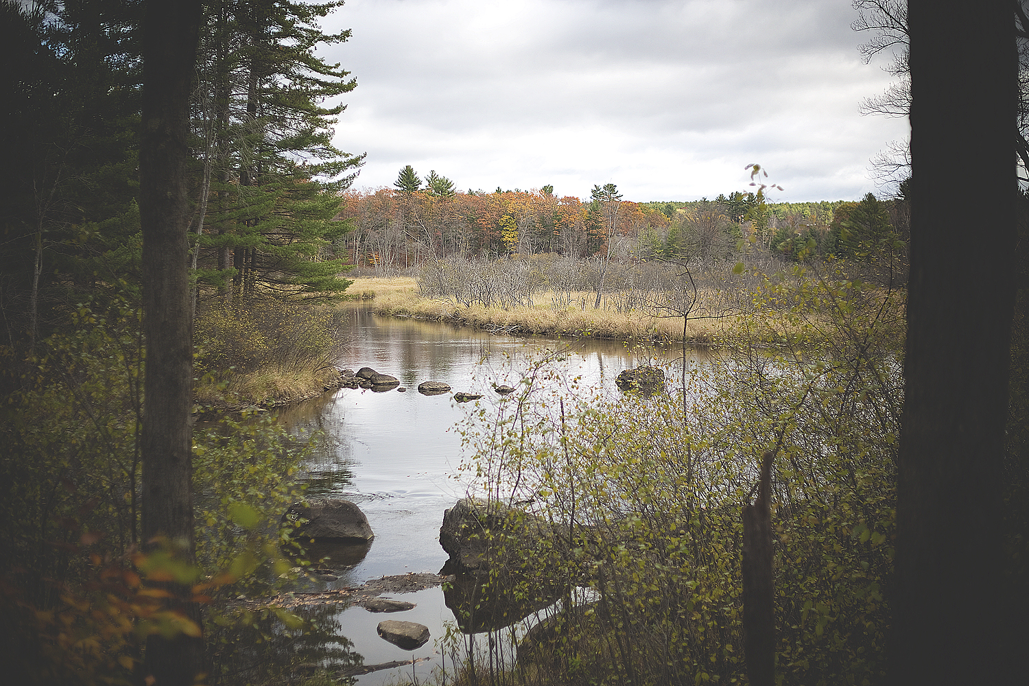 Nature and its beauty, to be viewed when taking the Lake Winnipesauke hiking trail starting at Franklin/NH.